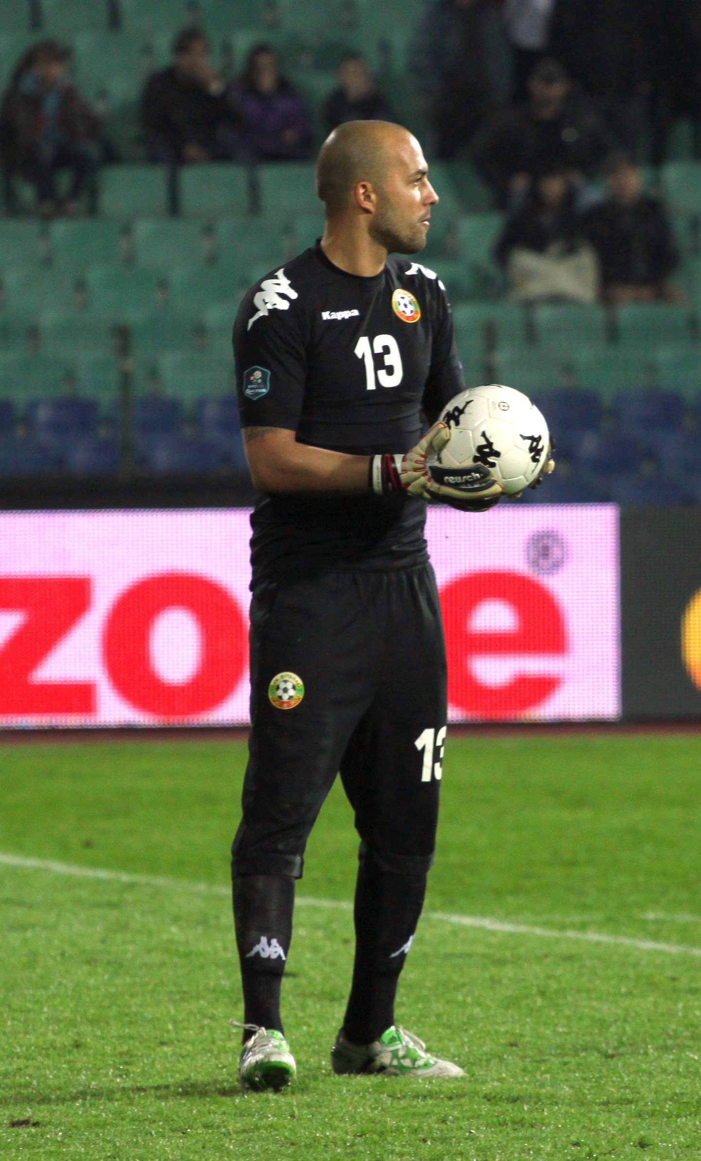 Nikolay Mihaylov (Bulgarian: Николай Михайлов, sometimes anglicised as Nikolay Mikhailov) (born 28 June 1988 in Sofia) is a Bulgarian footballer. He is currently playing as a goalkeeper for Twente and the Bulgarian national team.